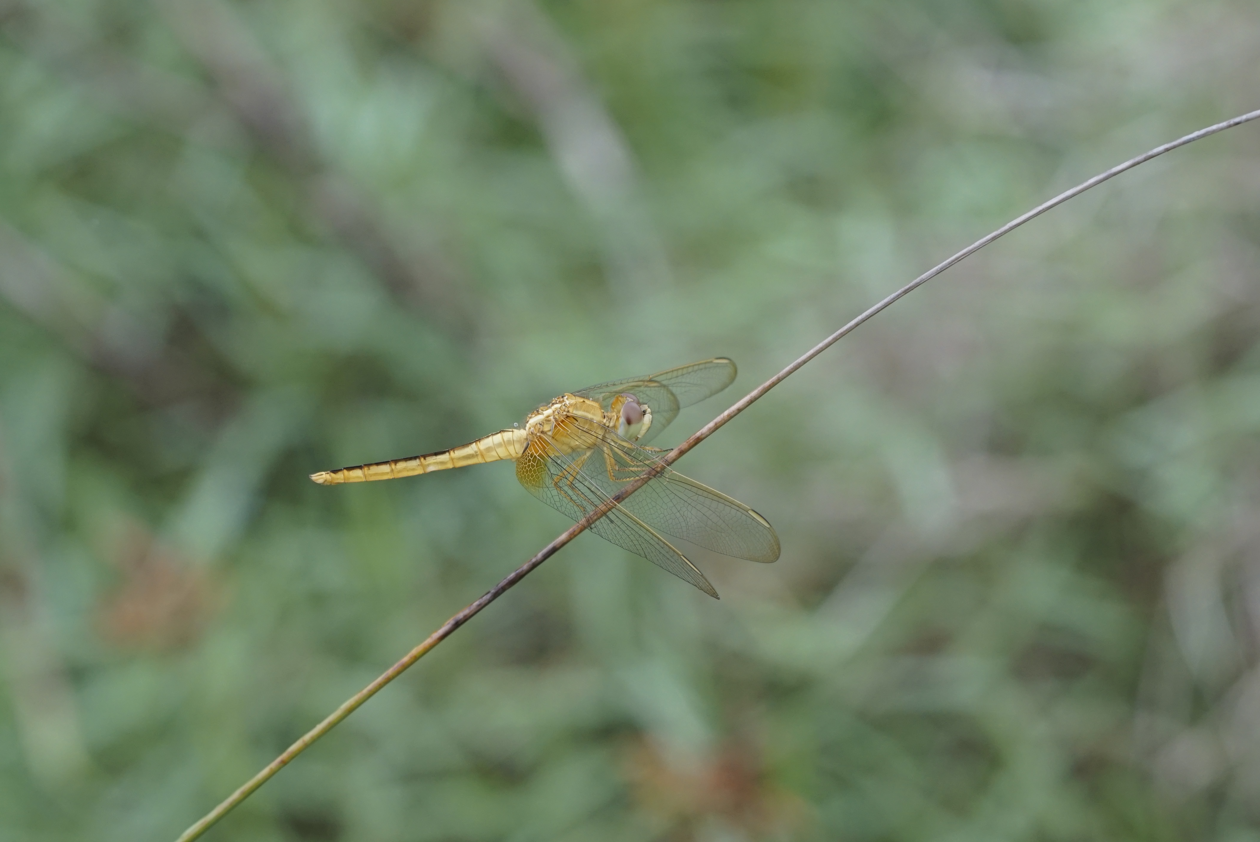 Crocothemis servilia